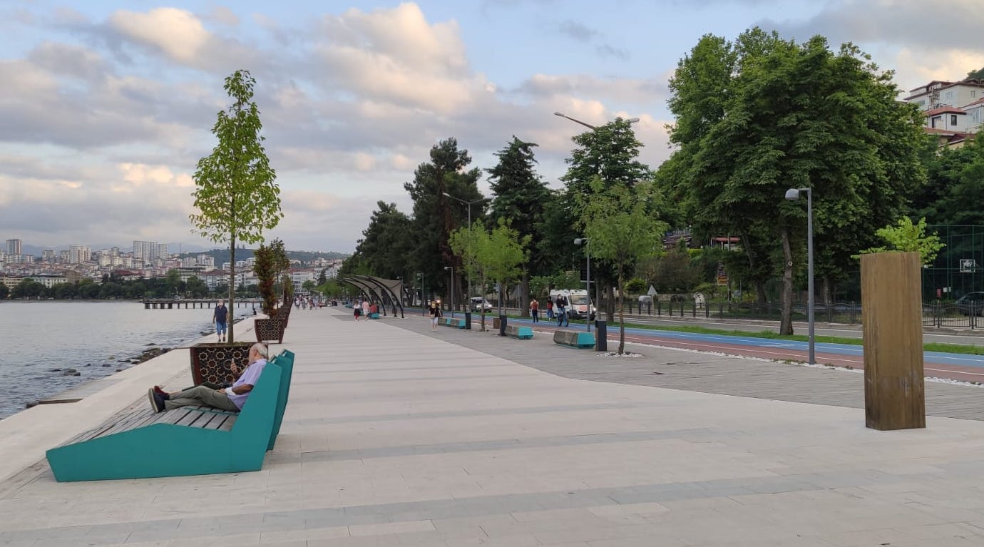 Ordu Coastline